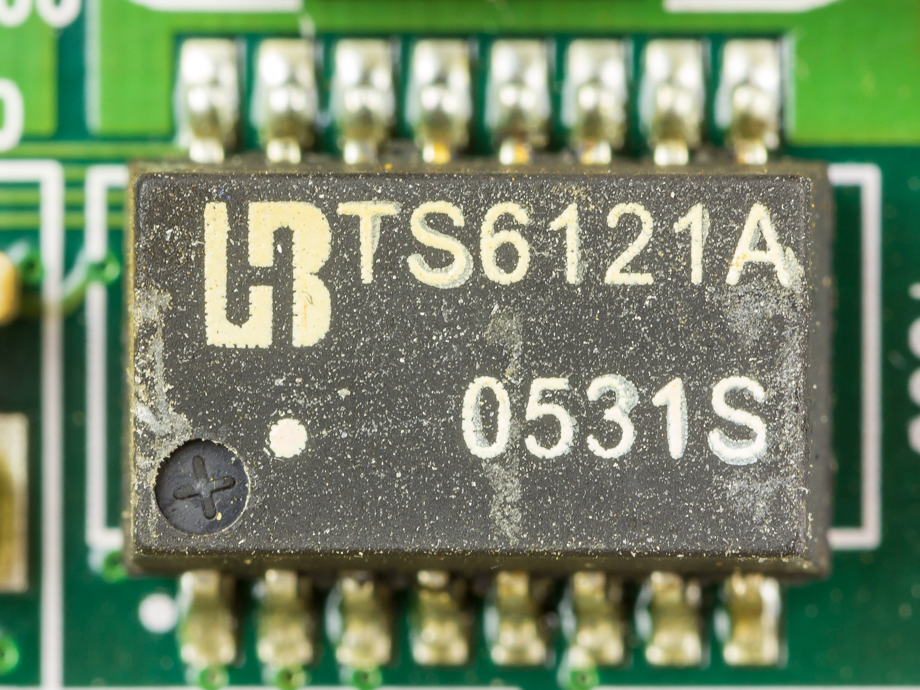 Bothhand TS6121A (10/100 Base Pulse Transformer) on mainboard of Surf@home II